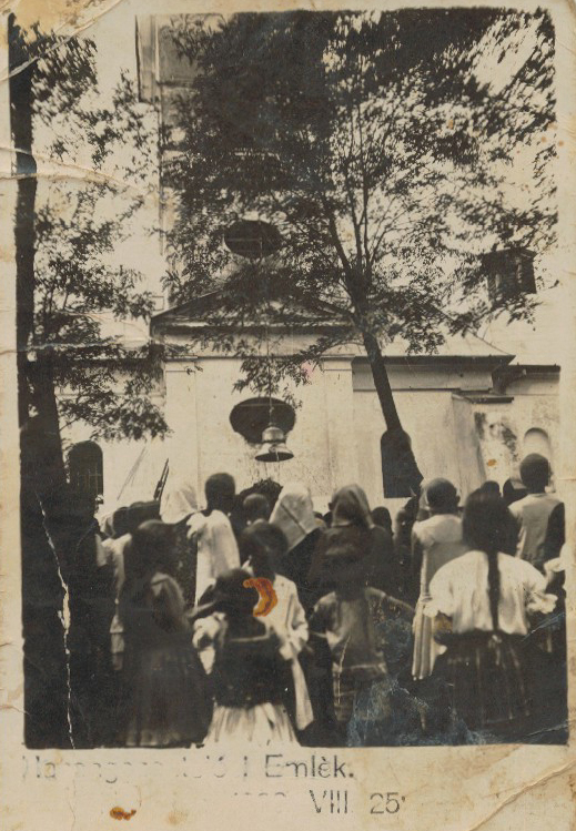 Bell of Church in Paňa